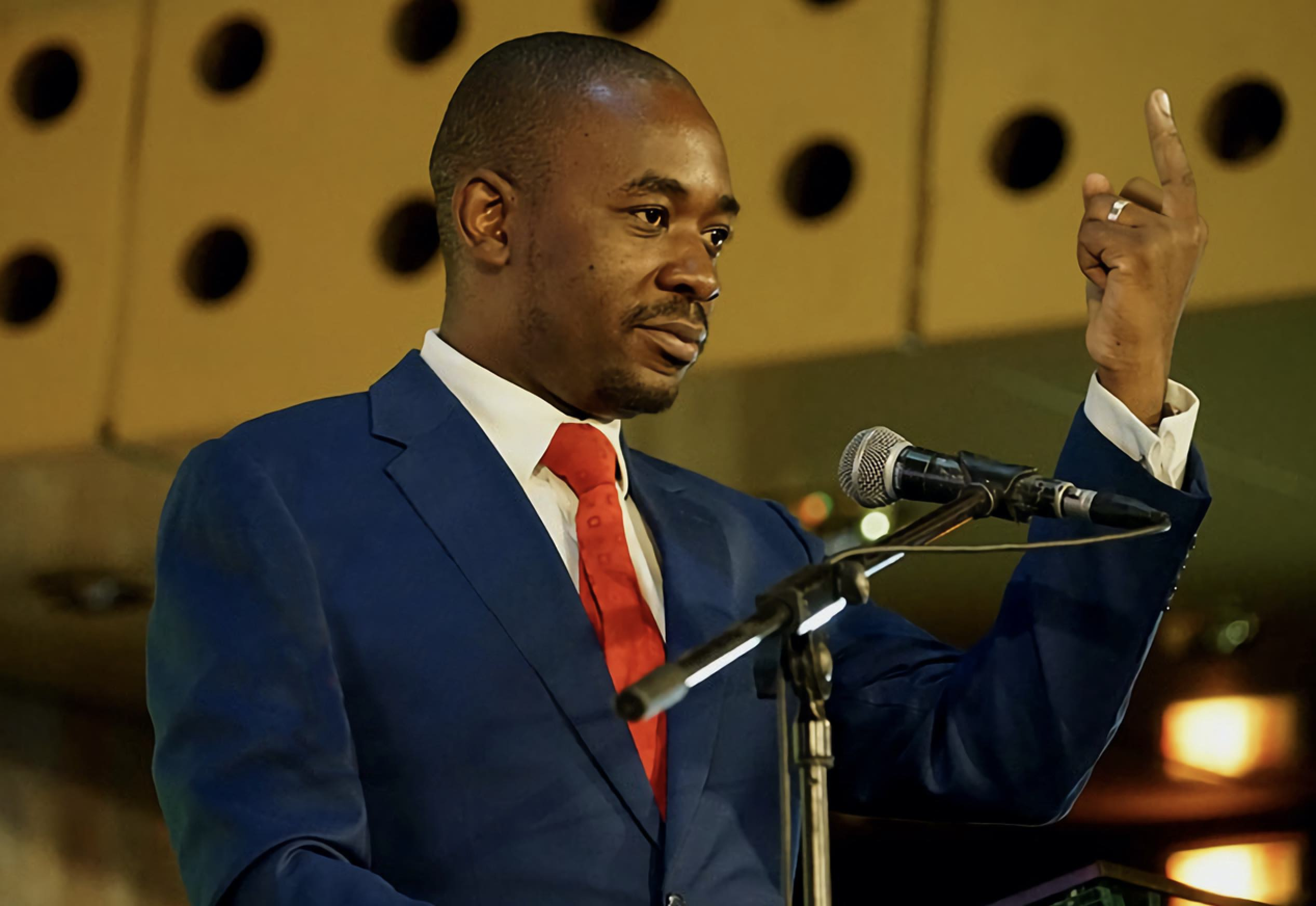 Chamisa`s speech